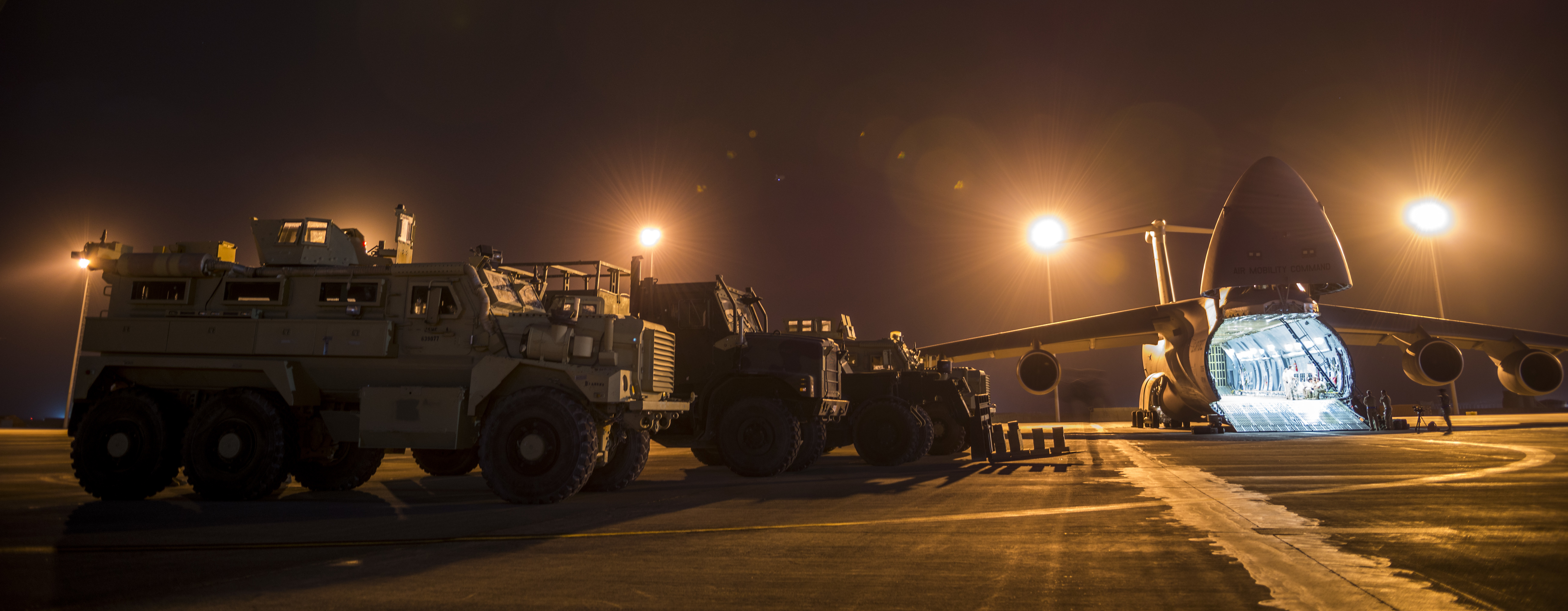 Airmen from the 9th Airlift Squadron and 455th Expeditionary Aerial Port Squadron with Marines from the Marine Expeditionary Brigade prepare to load vehicles into a C-5M Super Galaxy Oct. 6, 2014, at Camp Bastion, Afghanistan. Airmen and Marines loaded more than 266,000 pounds of cargo onto the C-5M as part of retrograde operations in Afghanistan. Aircrews for the retrograde operations, managed by the 385th Air Expeditionary Group Detachment 1, surpassed 11 million pounds of cargo transported in a 50-day period. During this time frame, crews under the 385th AEG broke Air Mobility Command’s operational cargo load record five times. The heaviest load to date is 280,880 pounds. (U.S. Air Force photo by Staff Sgt. Jeremy Bowcock)